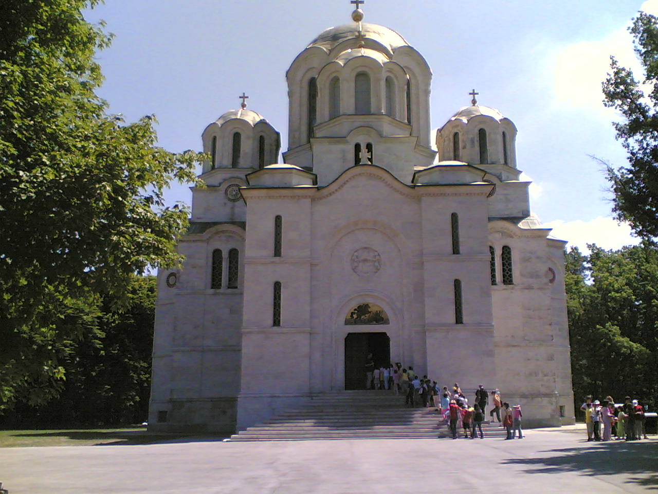 Church of St.George, Oplenac, Serbia.